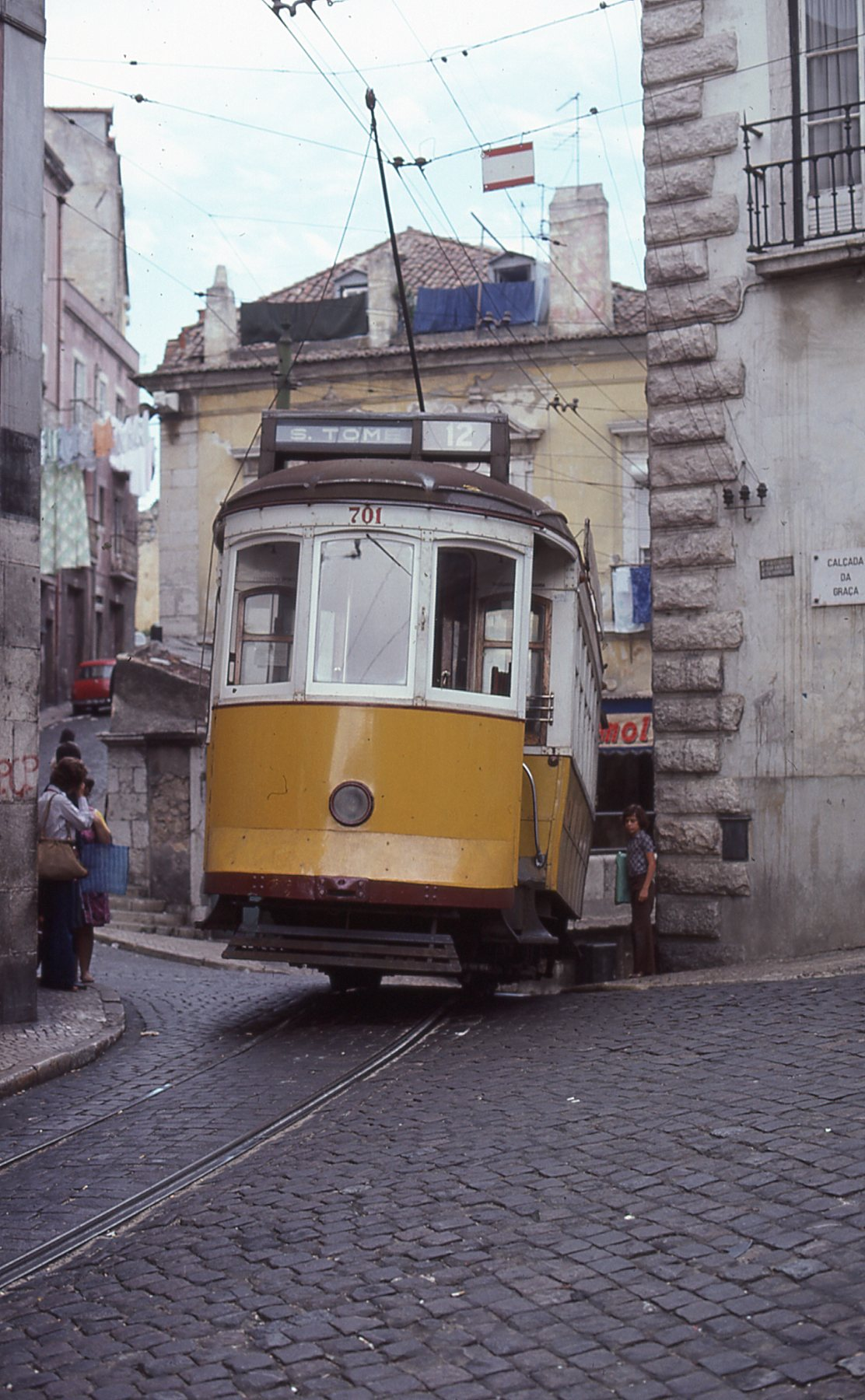 Lisbon trams, car 701 on line 12